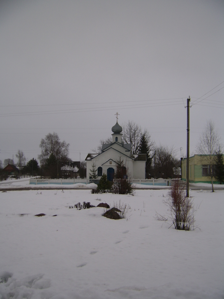 Surazhskaya carkva